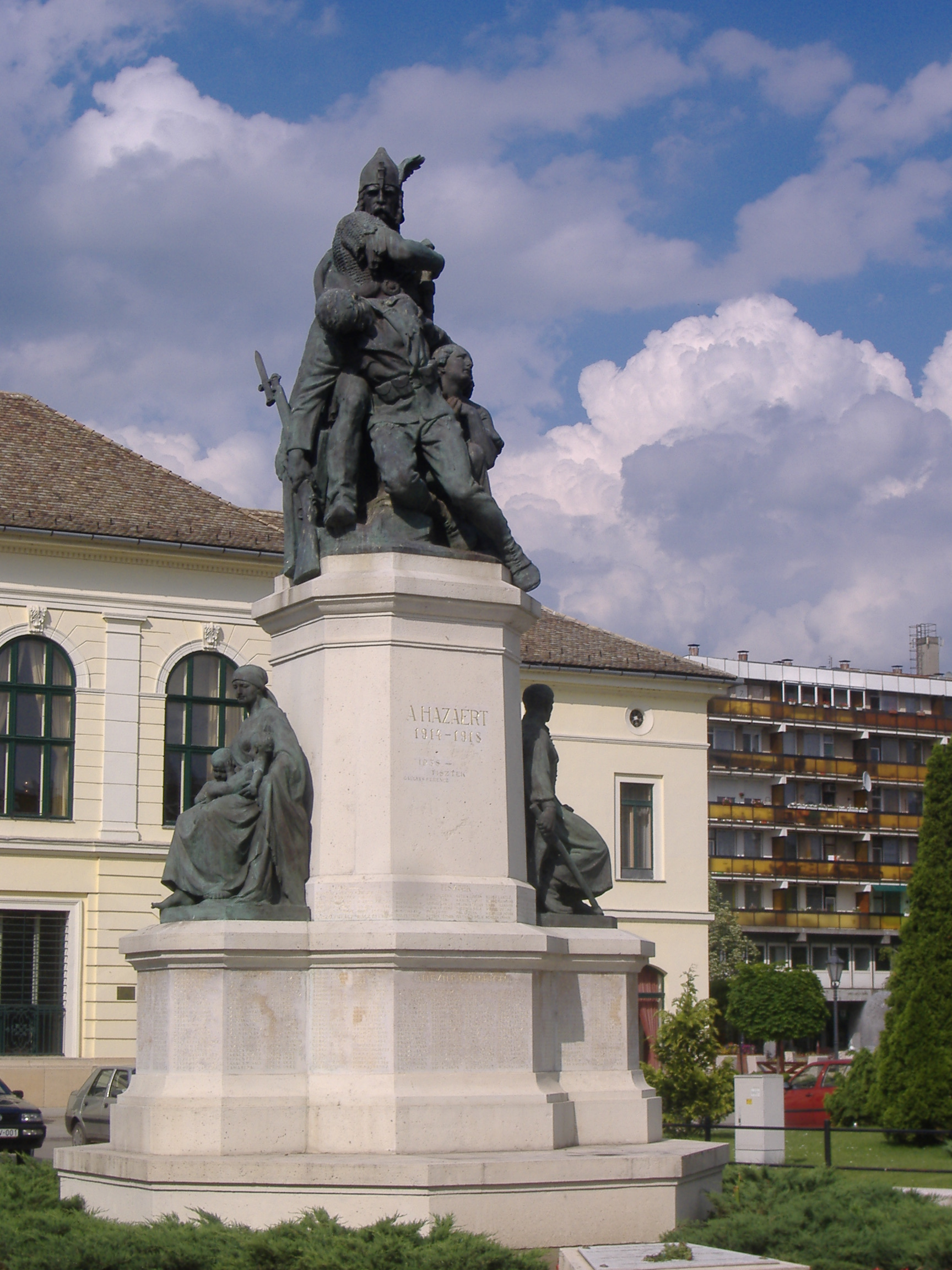 Memorial commemorating to the victims of the First World War in Makó, Hungary (sculptor: János Pásztor).